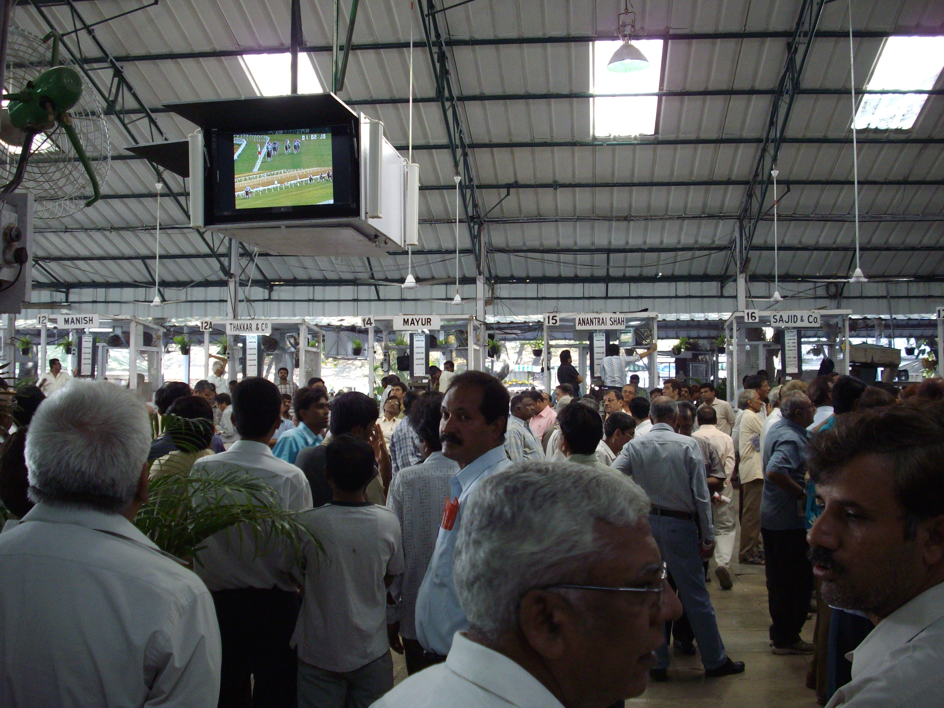 Betting Ring of the "Mahalakshmi Racecourse in Mumbai on Sunday(2-2-2008) of the "McDowell Indian Derby-2008.